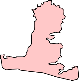 Map showing the costal outline of Hayling Island, England. Created 2005/03/12 by Ben Wheatley.